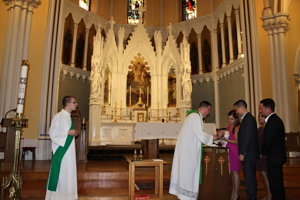 A child is baptized in front of the main altar at St. Mary's Church in Dedham, MA, with a deacon, priest, parents, and godparents.